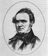 John B. Weller, U.S. Congressman, U.S. Senator, California governor, U.S. Ambassador to Mexico